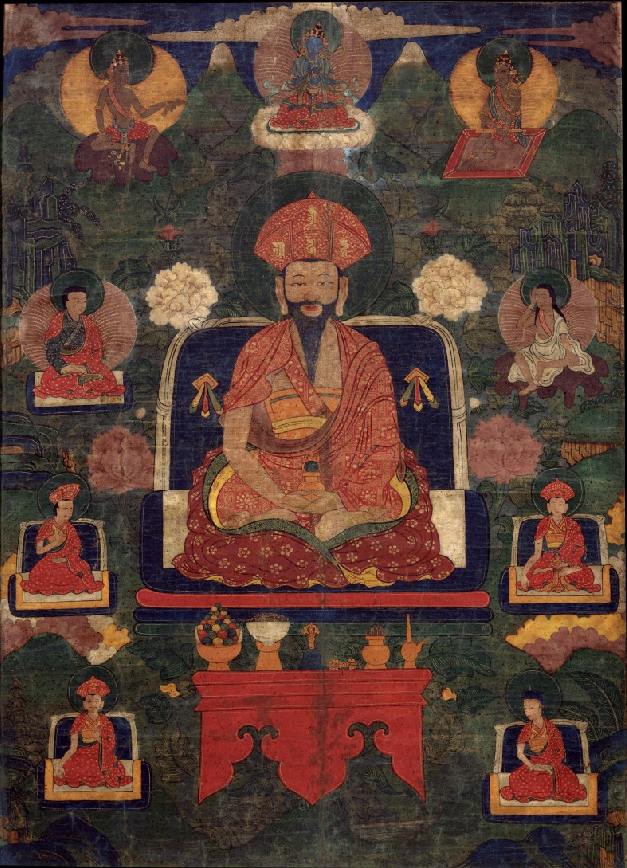 Center: Shabdrung Ngagwang Namgya. Above: primordial Buddha Vajradhara. Left: mahasiddha Tilopa with a fish. Seated right: Naropa. Sides: monks,lamas, and a yogi in a white robe. Ground Mineral Pigment on Cotton. Collection of Rubin Museum of Art.